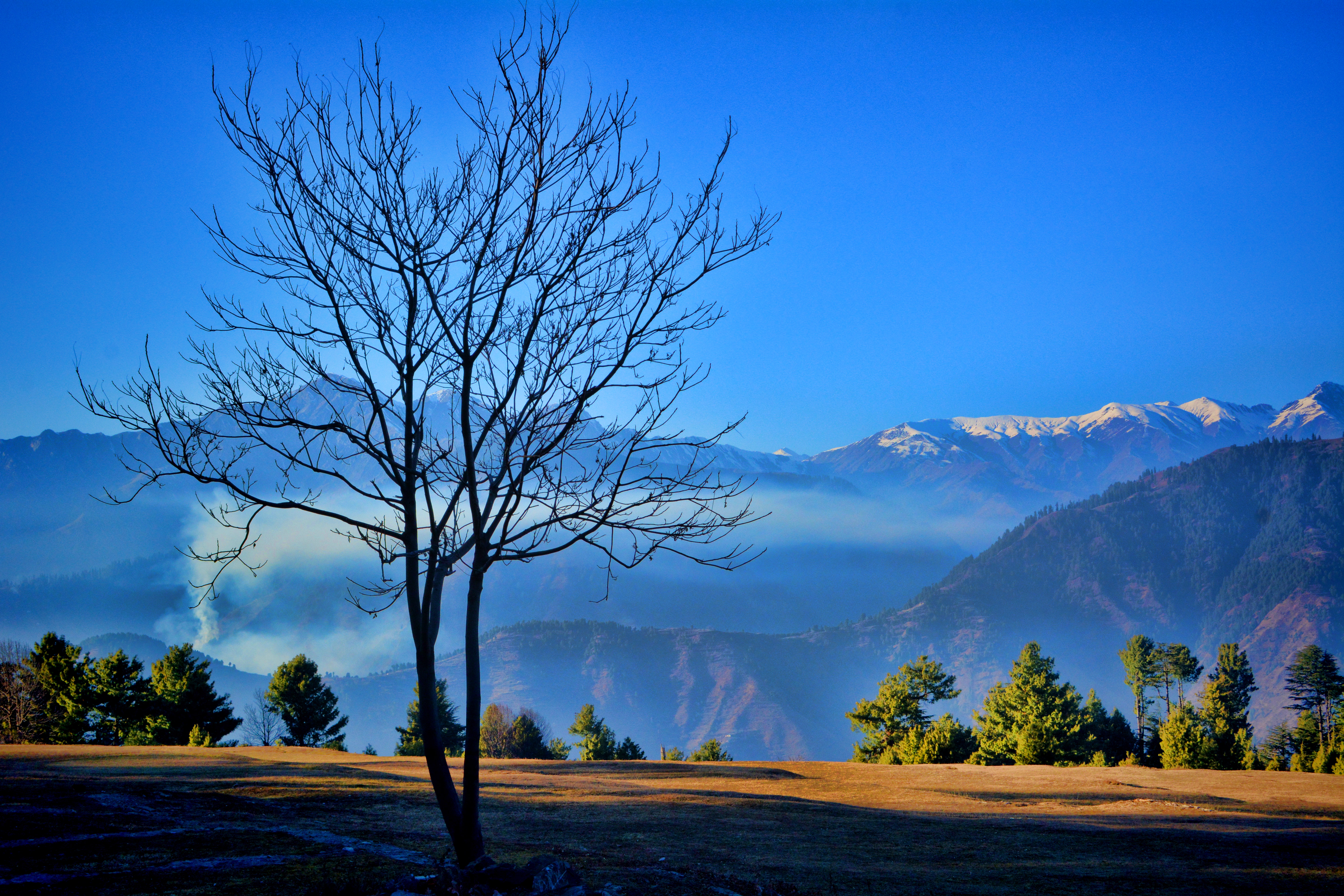 Hill Station in Khyber Phukhtunkhwa